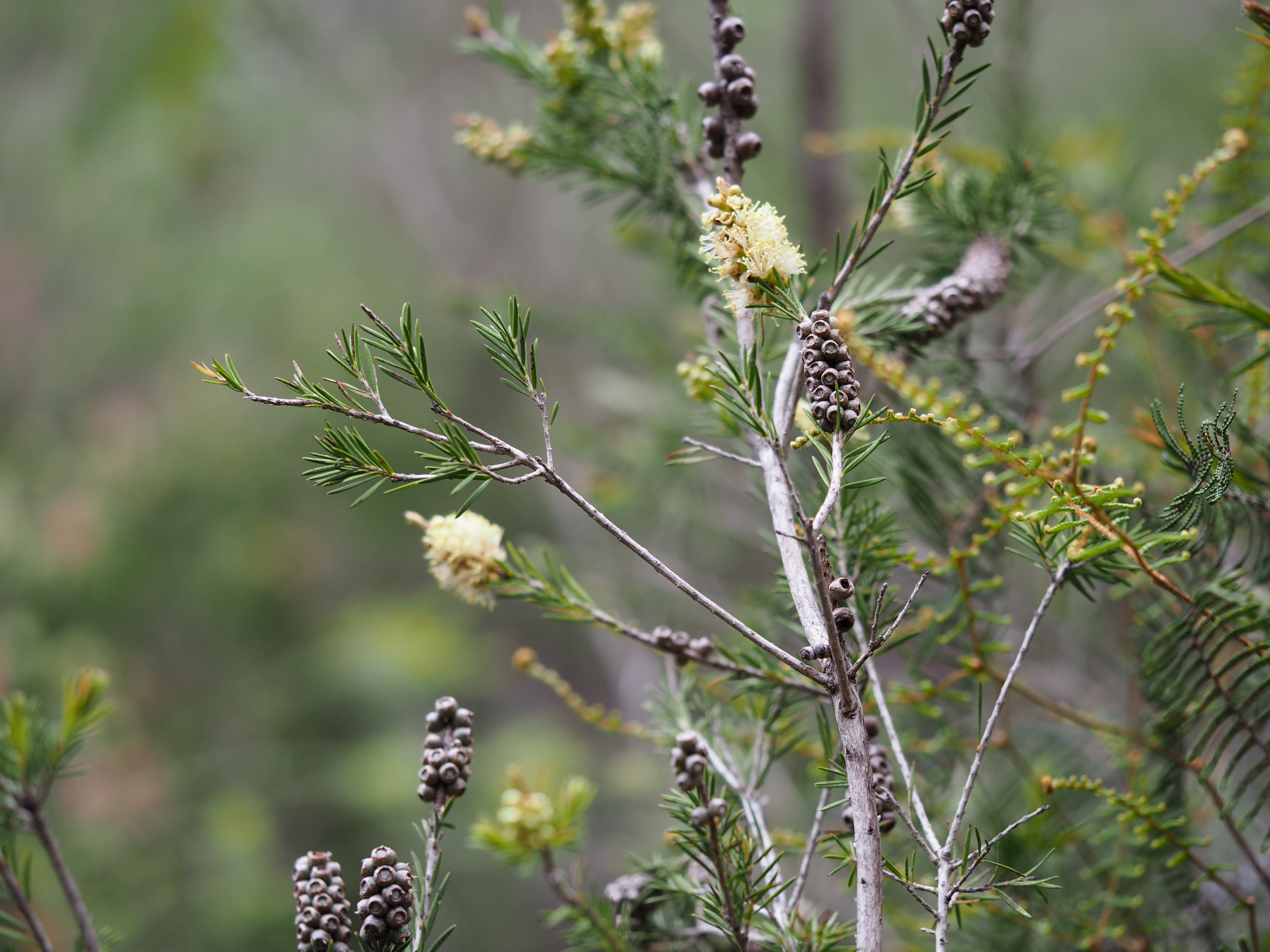 Melaleuca nodosa in the Gibraltar Range National Park (along the road to Mulligans Hut)